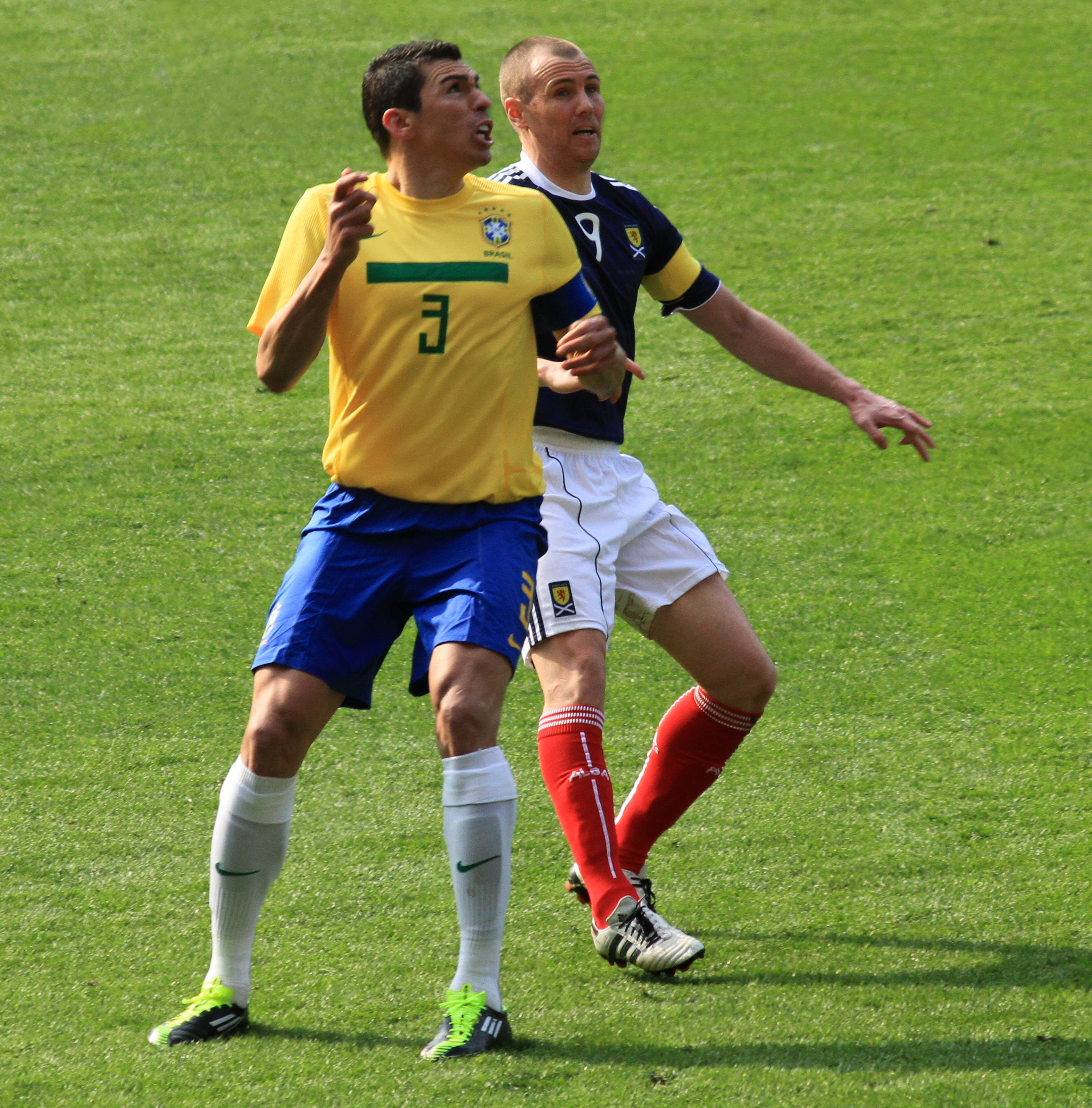 Lucio and Kenny Miller 1